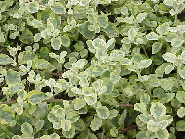 Species: Helichrysum petiolare Family: Asteraceae Image No. 1